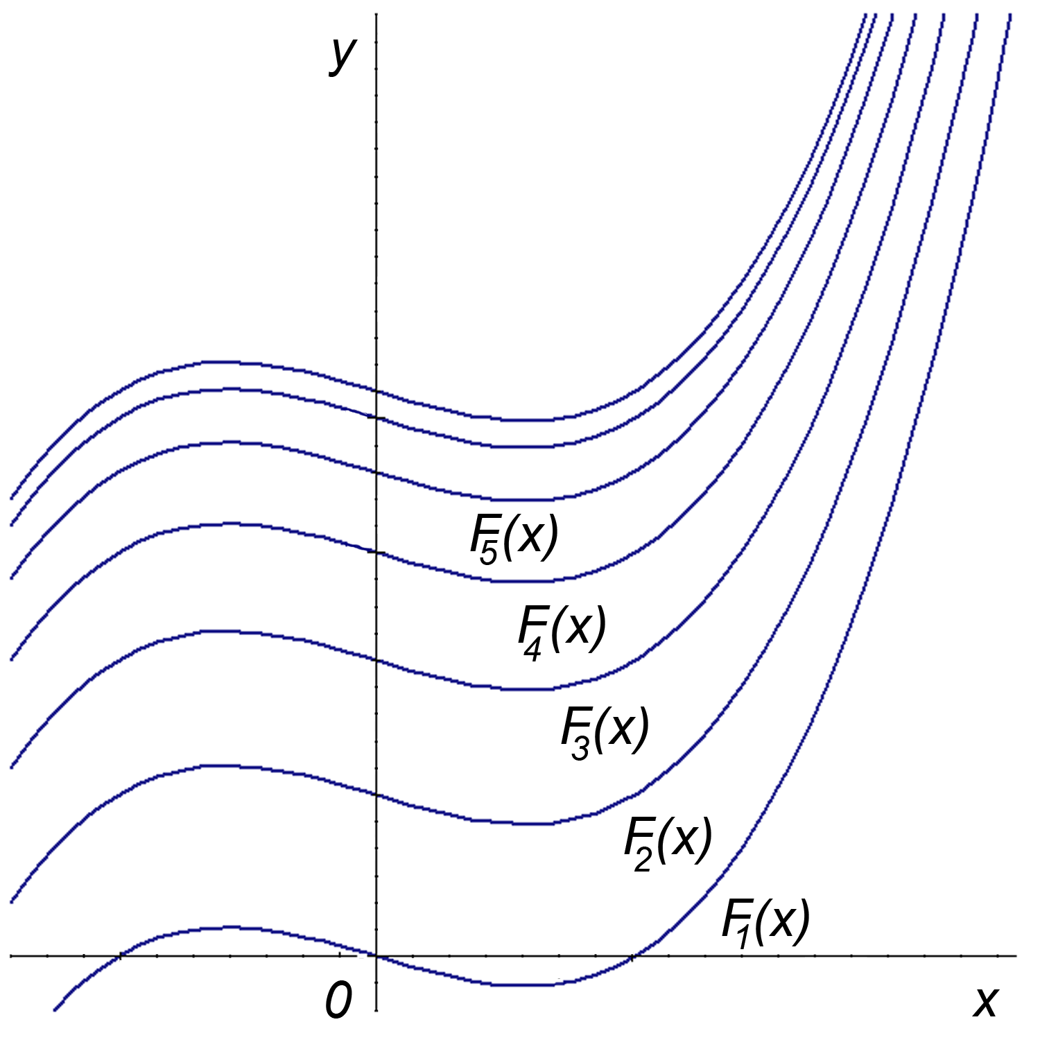 Different antiderivatives F i ( x ) {\displaystyle F_{i}(x)} of a function f ( x ) {\displaystyle f(x)} . In this case f ( x ) = 3 x 2 − 2 {\displaystyle f(x)=3x^{2}-2} .